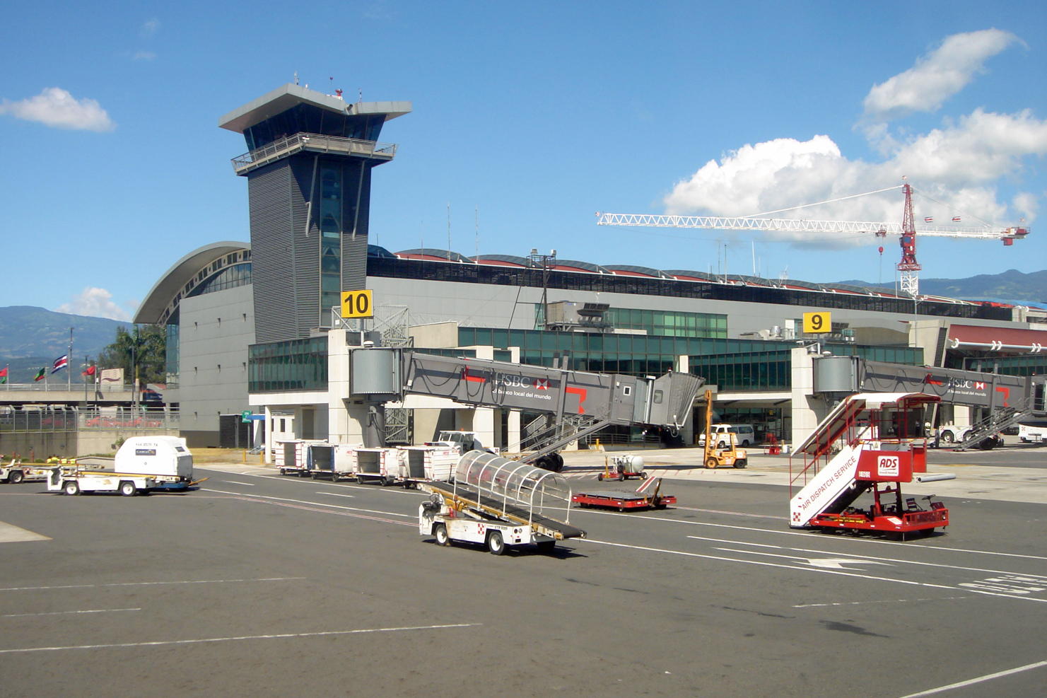 Terminal building (gates 9 & 10 area) and control tower at Juan Santamaria International Airport (SJO), Alajuela, Costa Rica